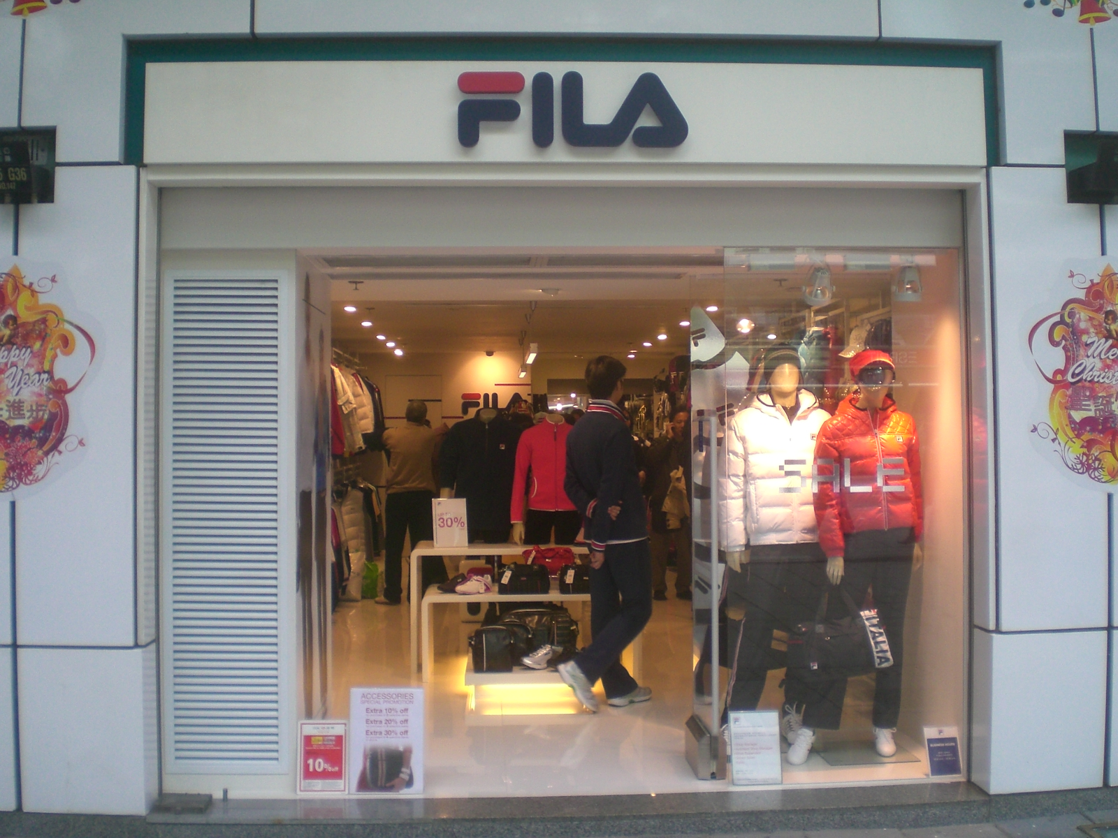 尖沙咀柏麗購物大道